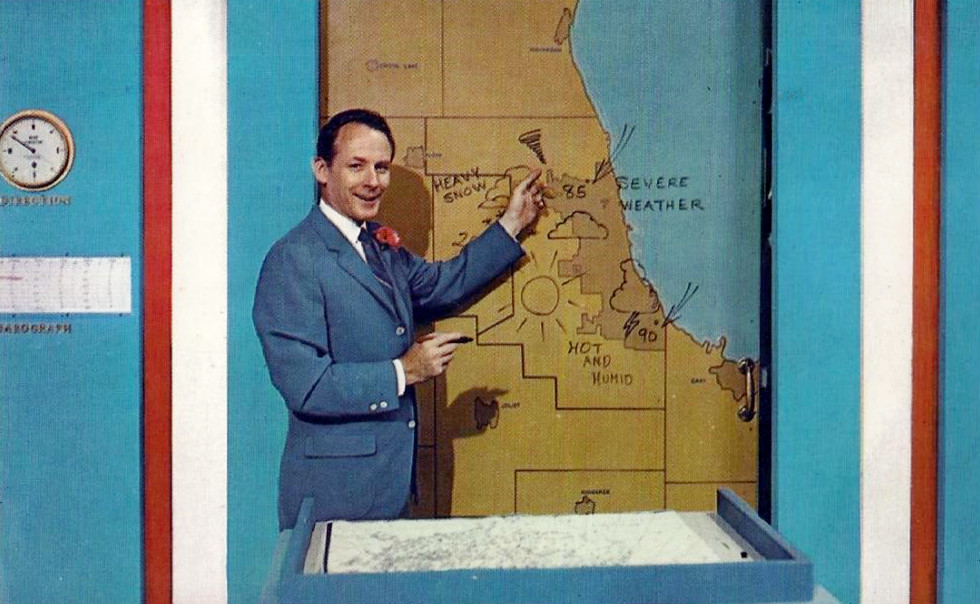 Postcard photo of television weatherman Harry Volkman on the WGN-TV news set.